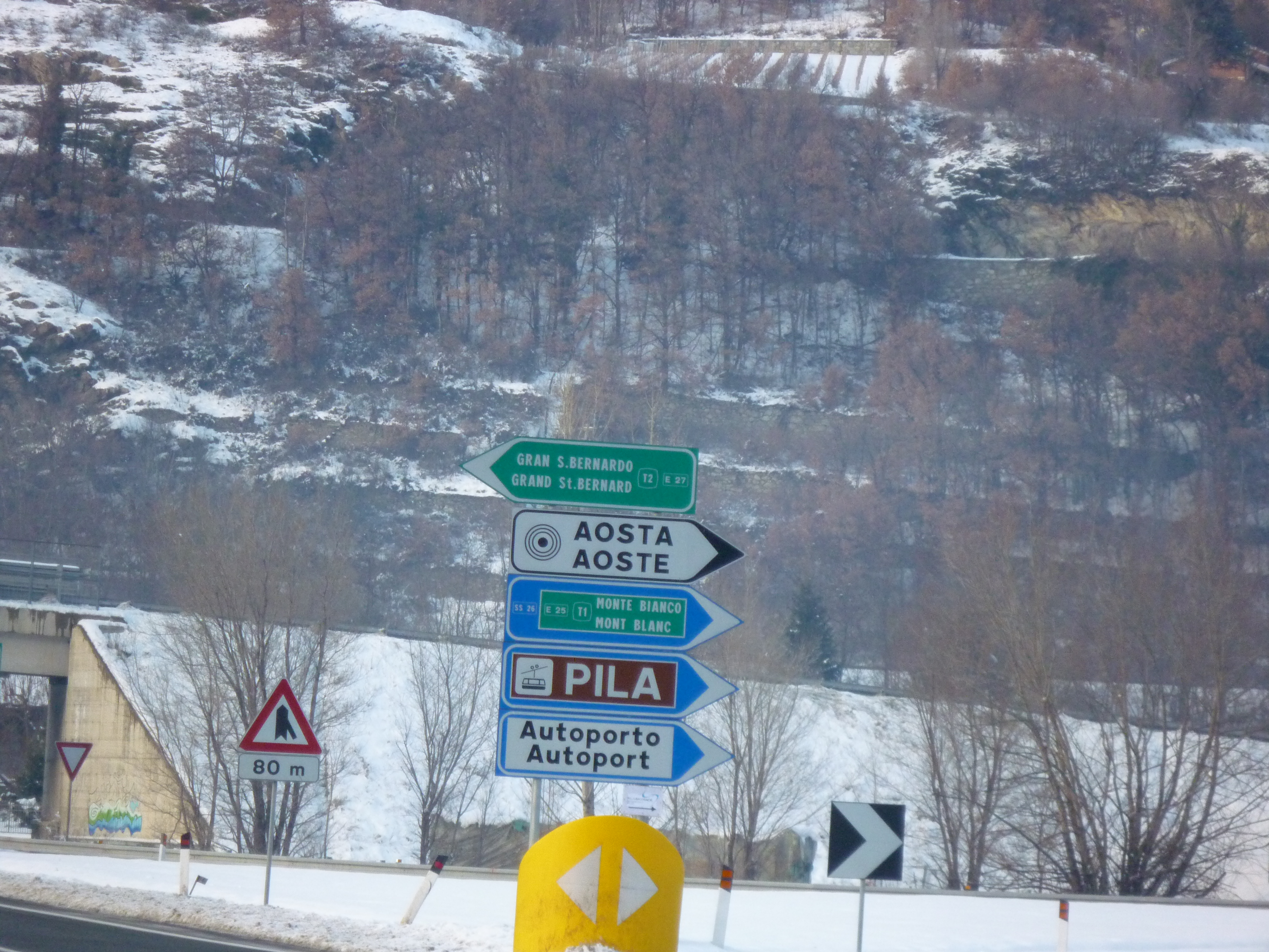 Bilingual road signs in Quart (Aosta Valley - Italy)